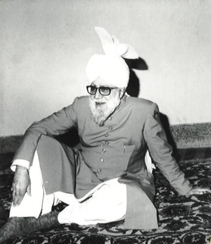 Hadhrat Mirza Nasir Ahmad